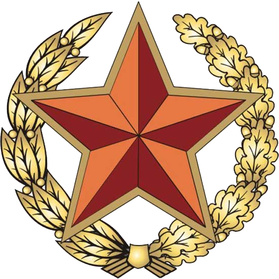 Armed Forces of the Republic of Belarus emblem